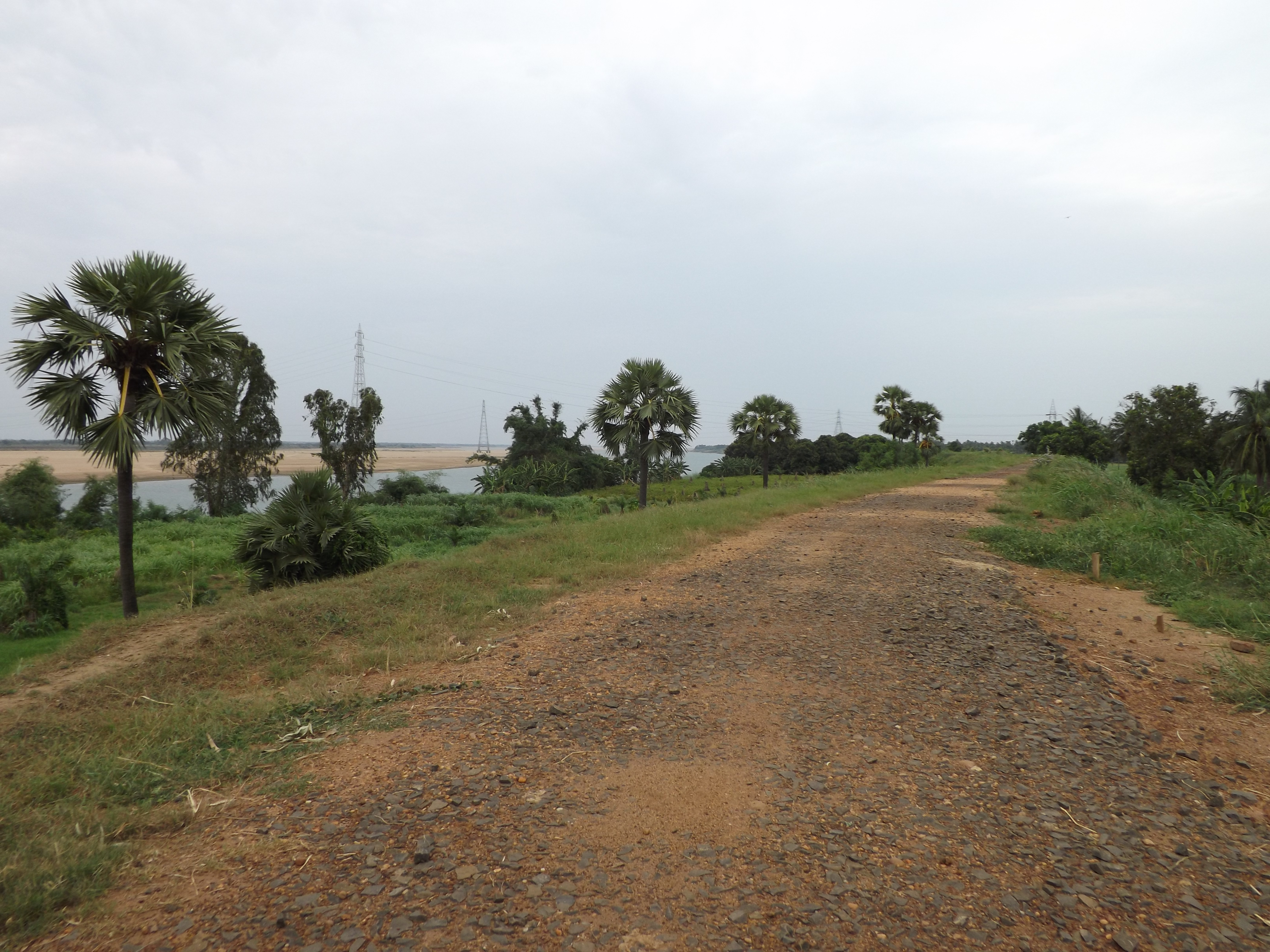 rever bank of godavari-4